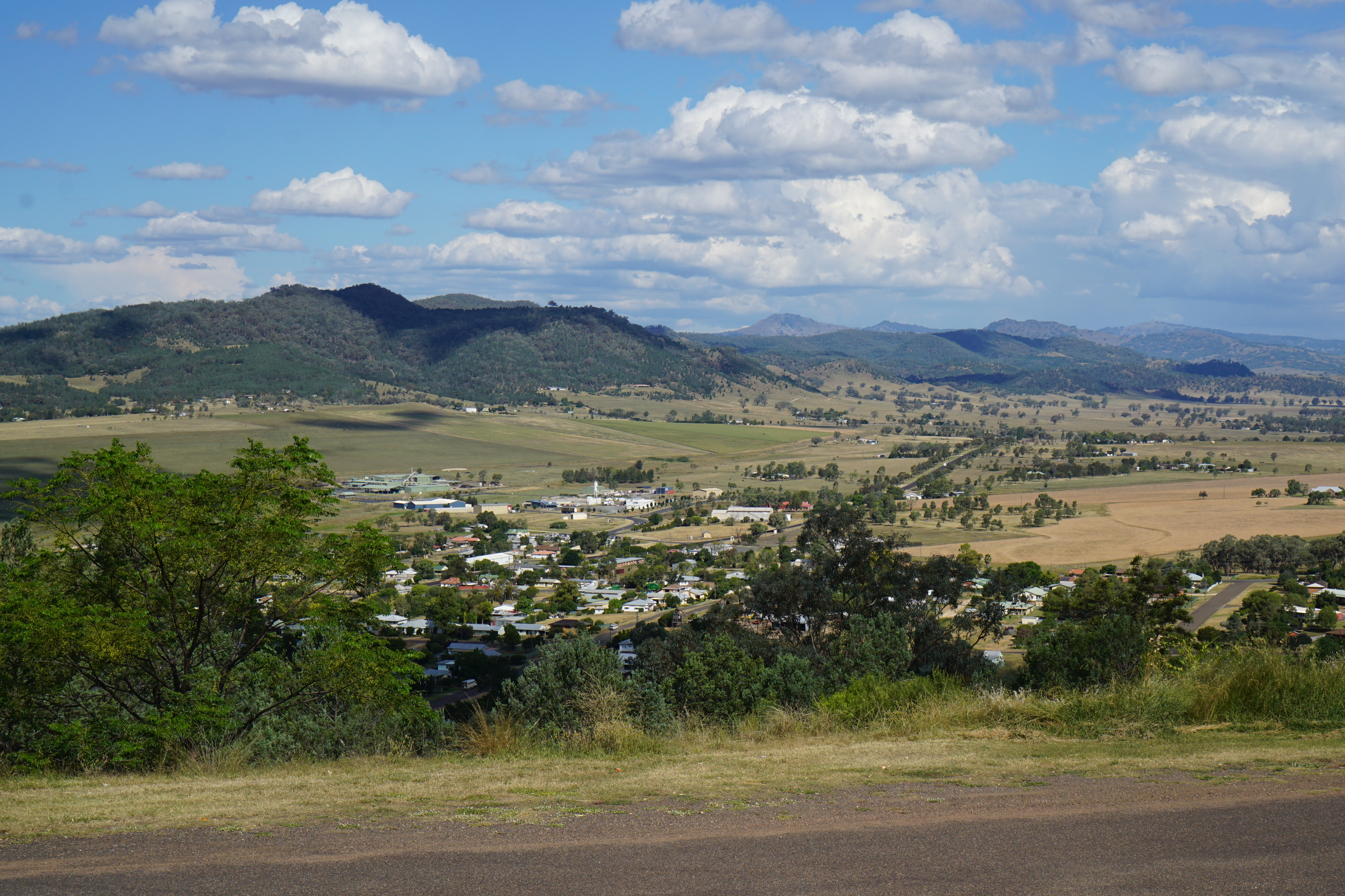 The New South Wales town of Quirindi from a nearby lookout.